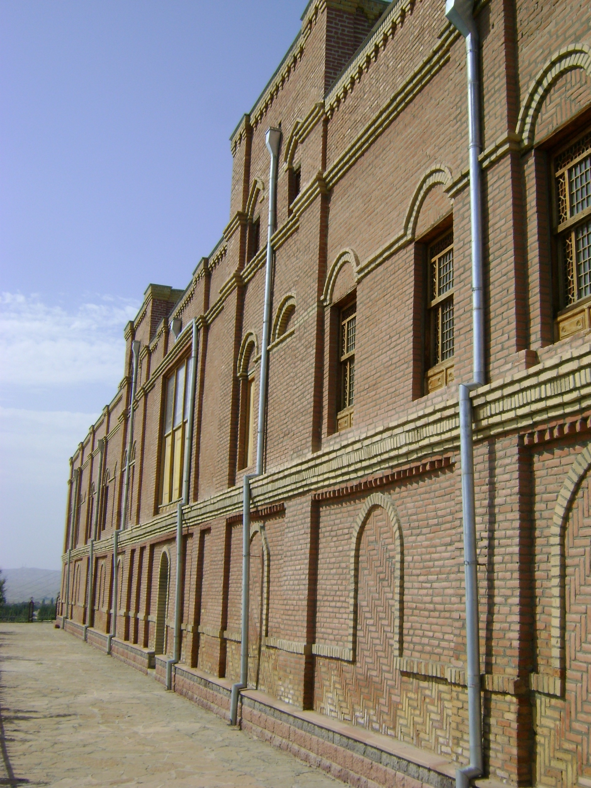 Nakhchivan_khan_palace_backside